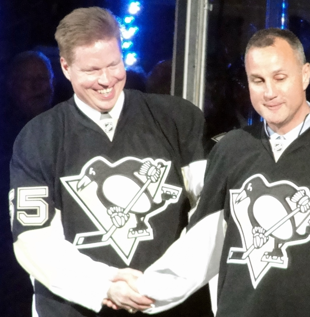 Larry Murphy and Paul Coffey shake hands as they are introduced during a pregame ceremony for the final regular season game at Mellon Arena, April 8, 2010.